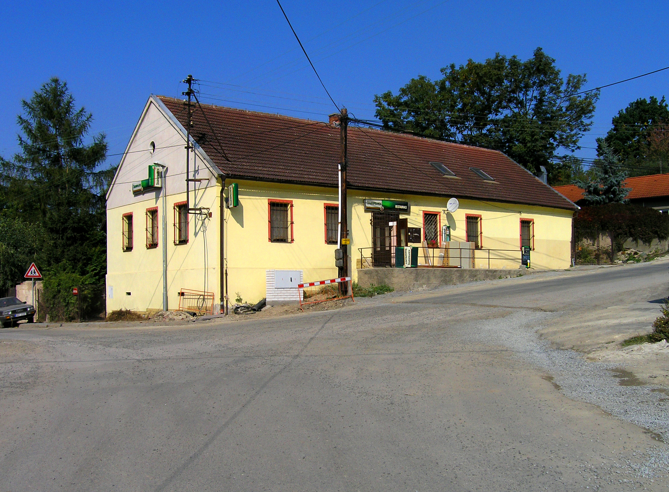 Pub in Voděrádky, part of Říčany, Czech Republic